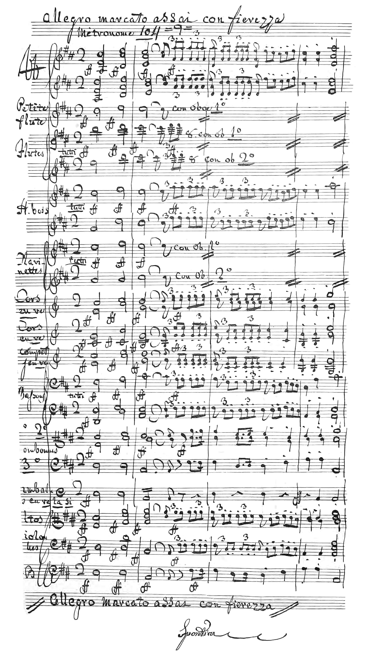 First page from an autograph manuscript of the overture to Spontini's opera Olimpie with Spontini's signature at the bottom. (The original image has been converted to grayscale, cleaned up and the light levels altered, )